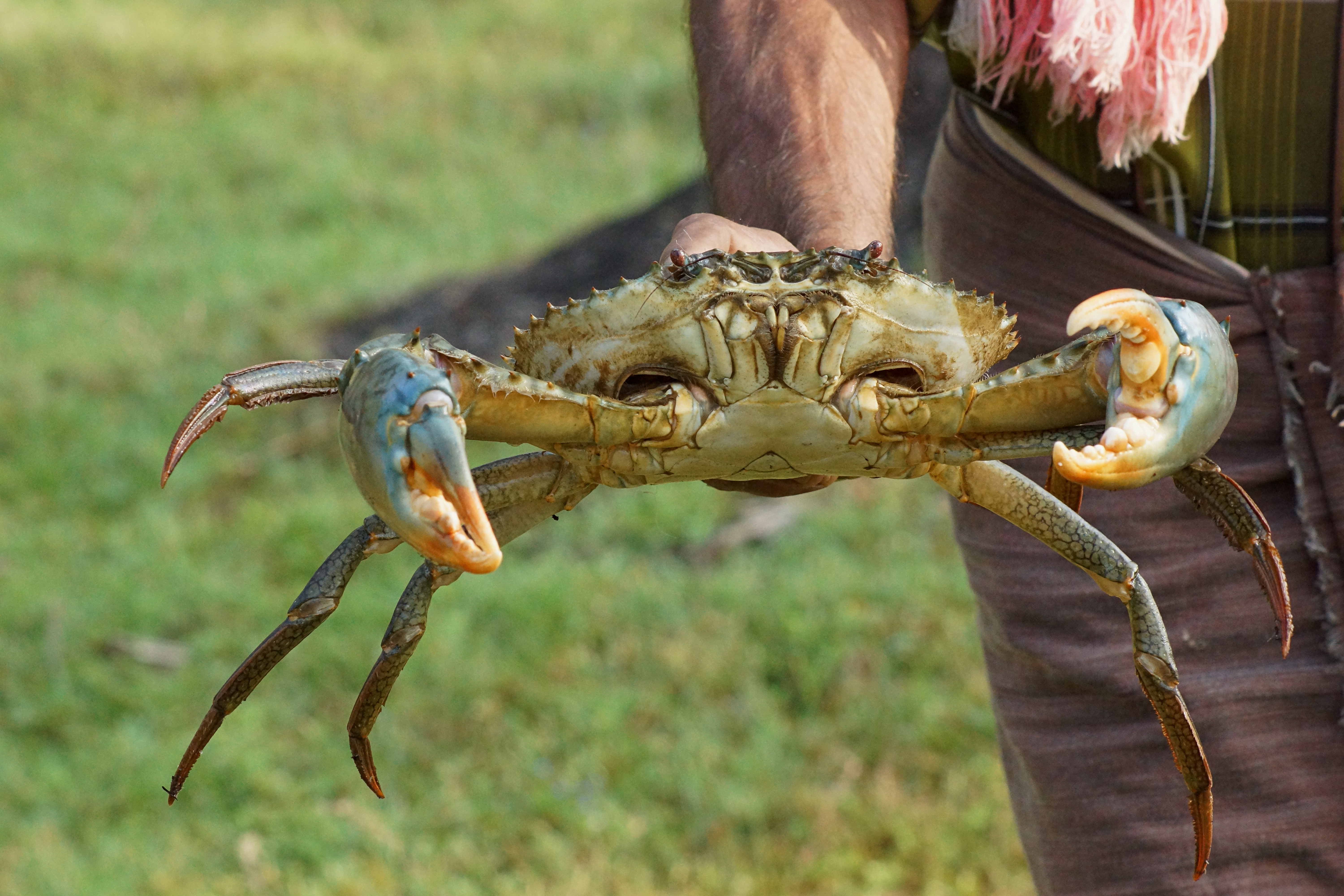 Mud crab